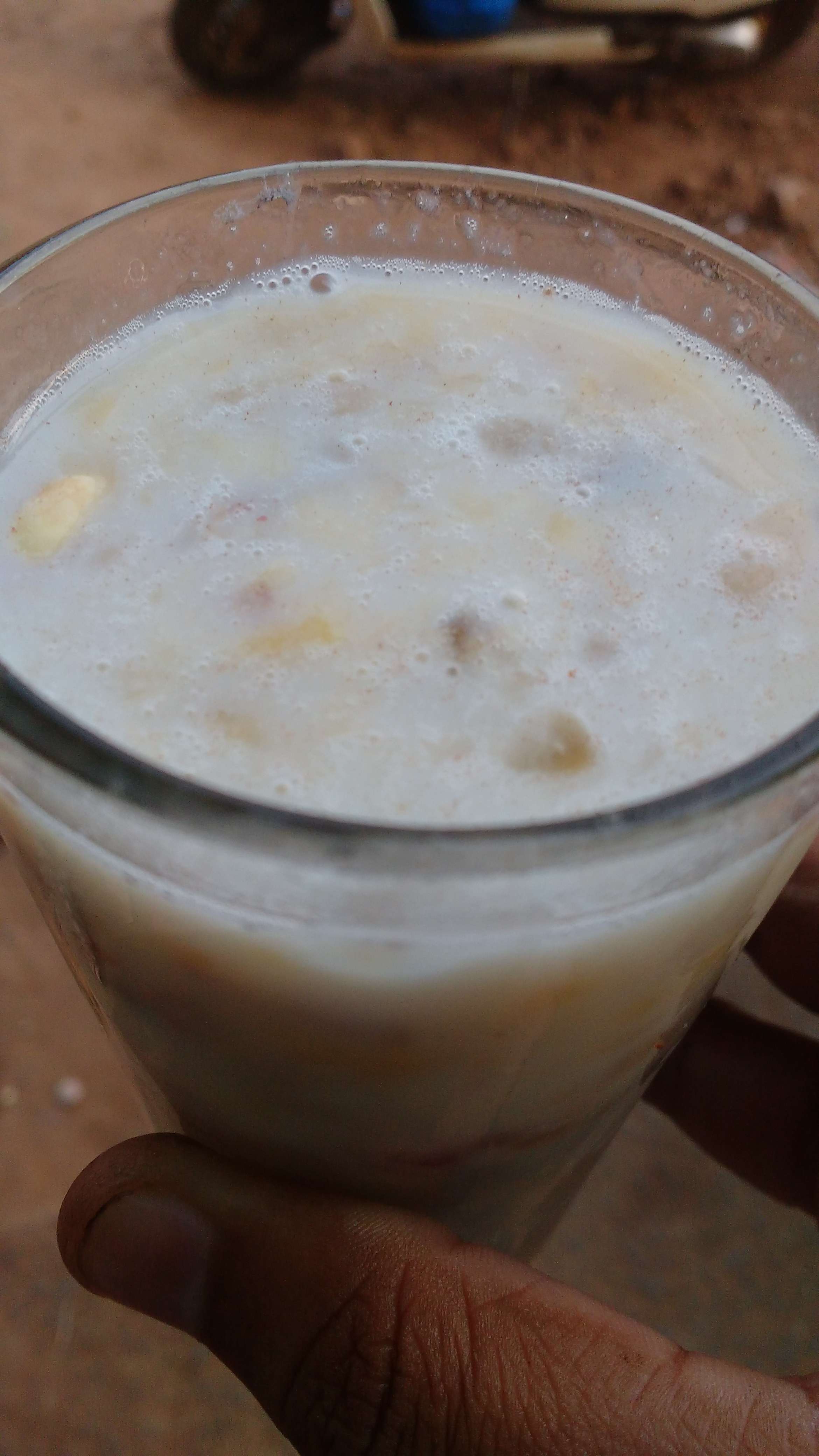 Aval milk is a popular drink found in Malabar area of Kerala, India